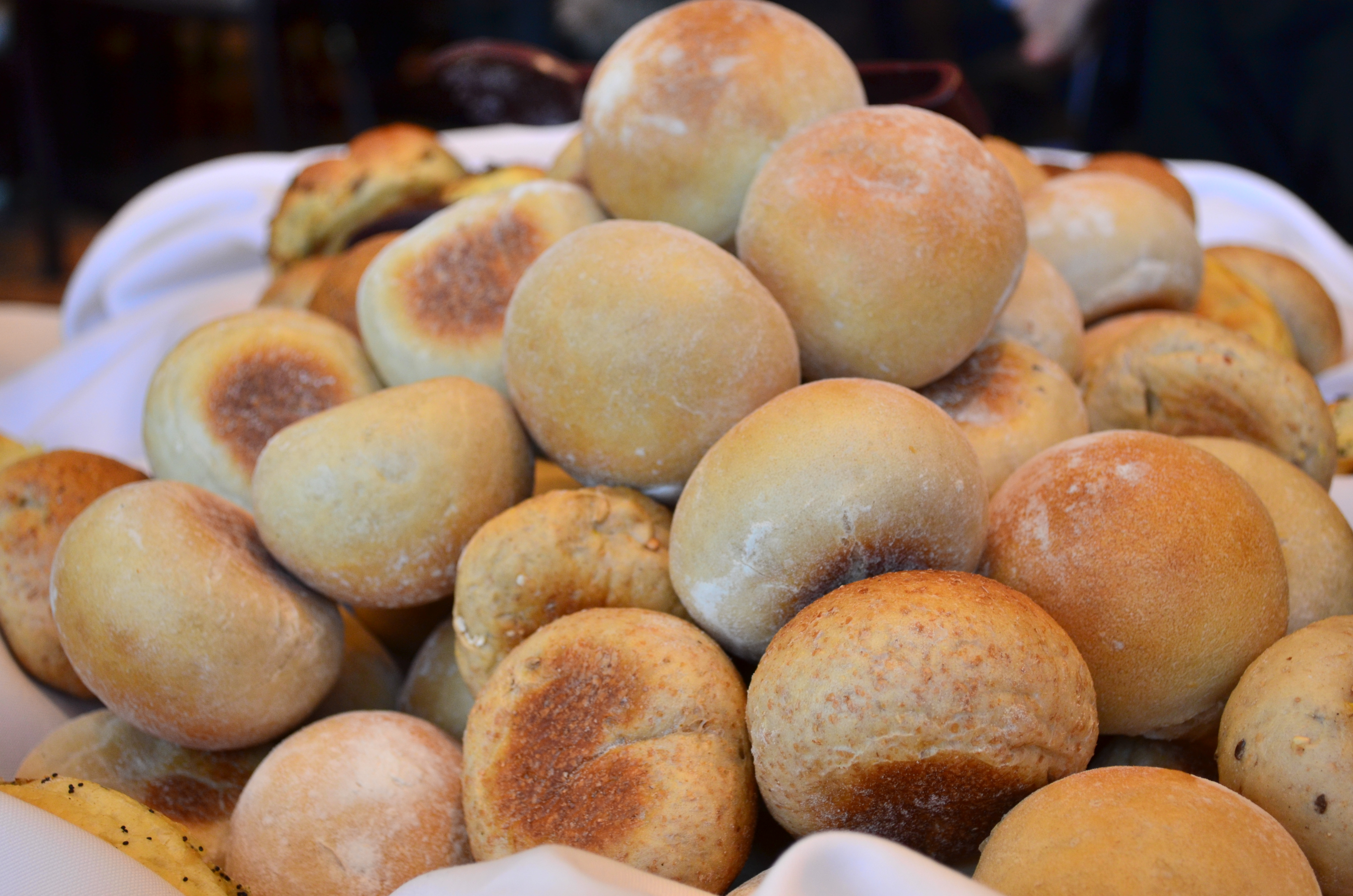 Crunchy buns served at a conference lunch.